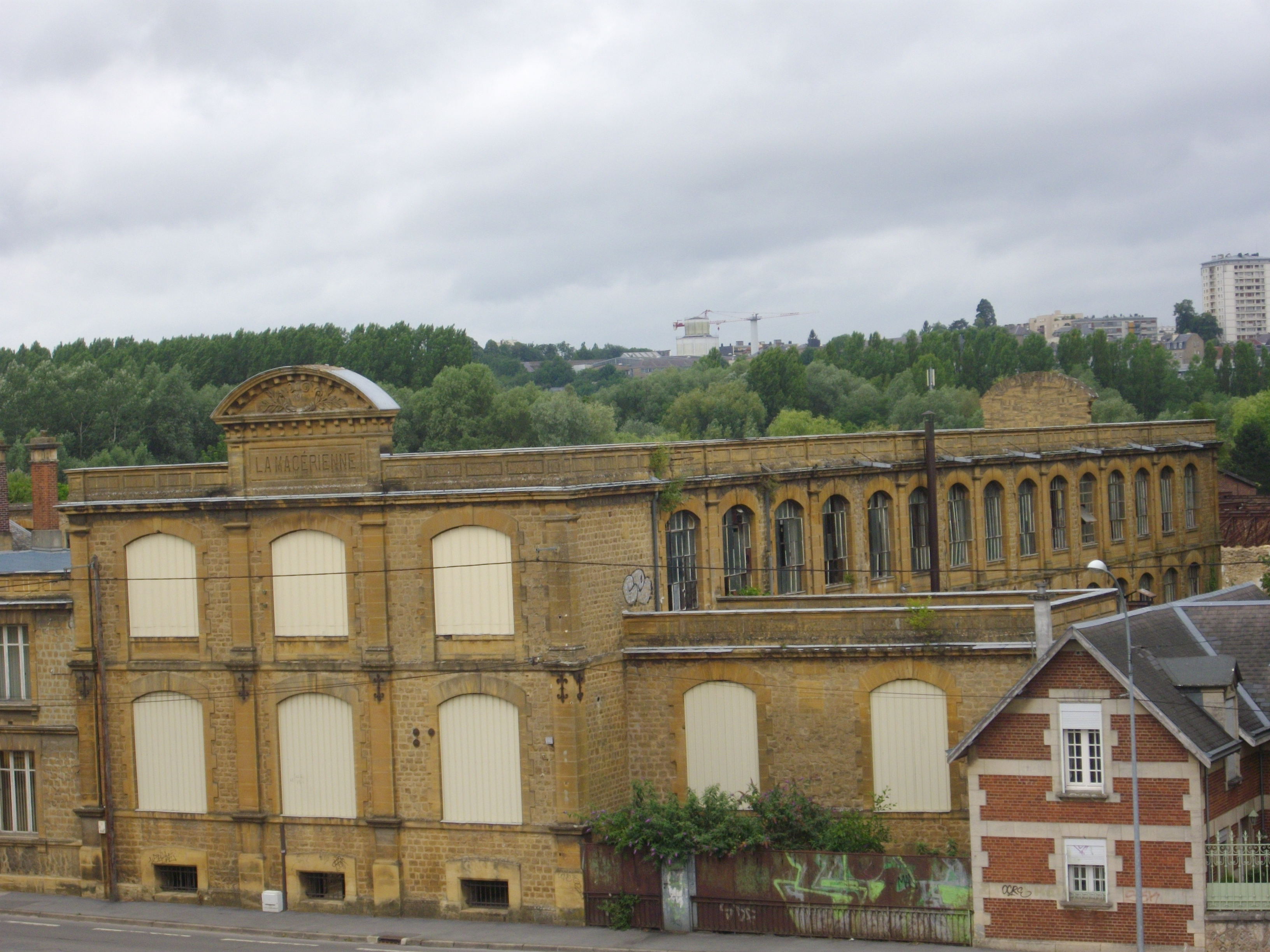 La Macérienne factory in Charleville-Mézières (Ardennes, France), from Basilica square .